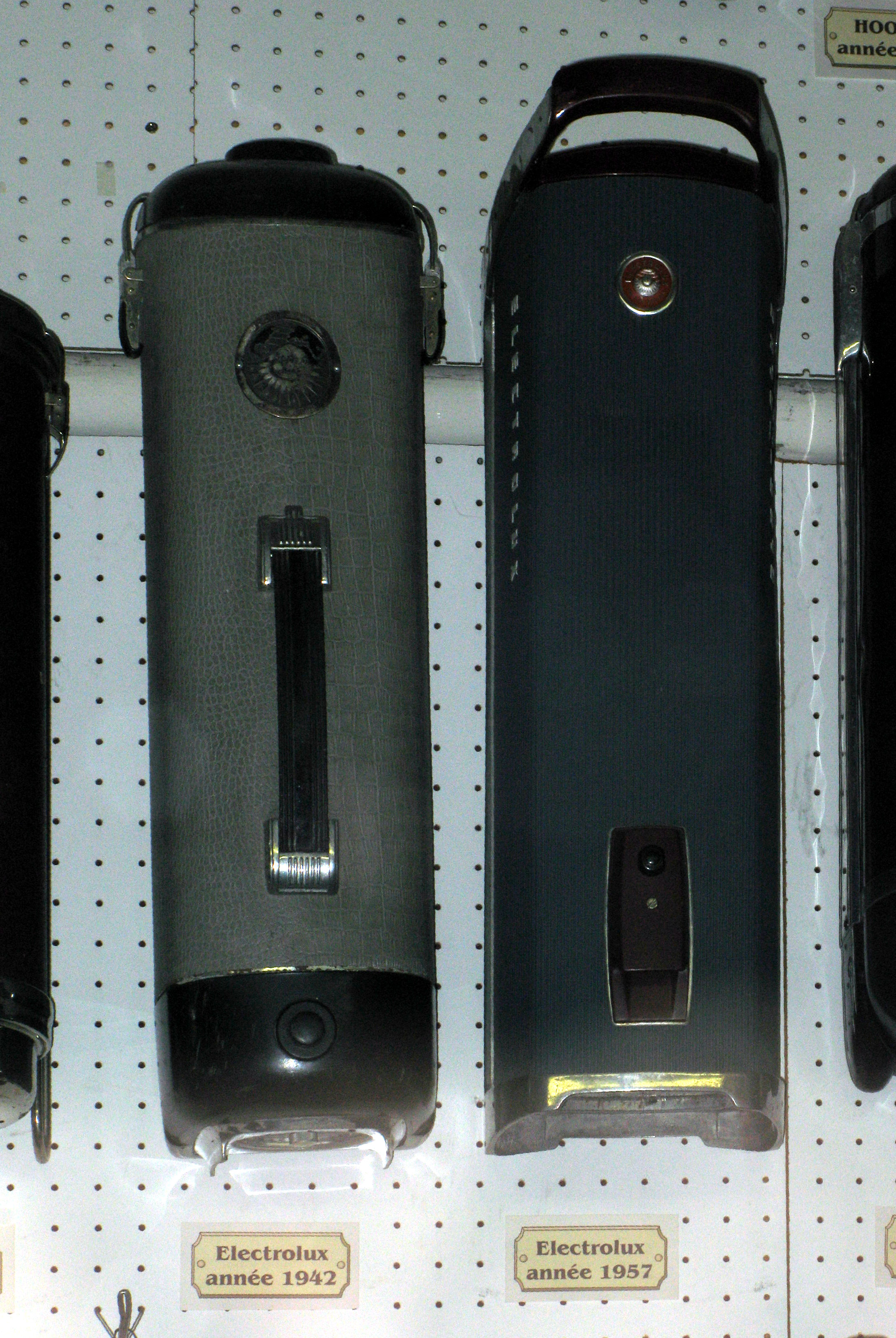 Vintage vacuum cleaner.